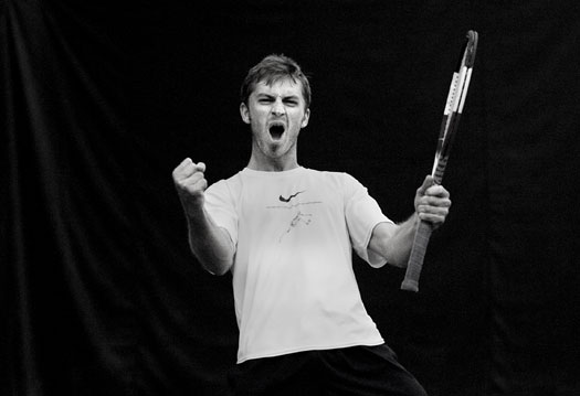 Adam Davidson competing in the ATP World Tour $50,000 Challenger in Cherkassy, Ukraine. August 27, 2007